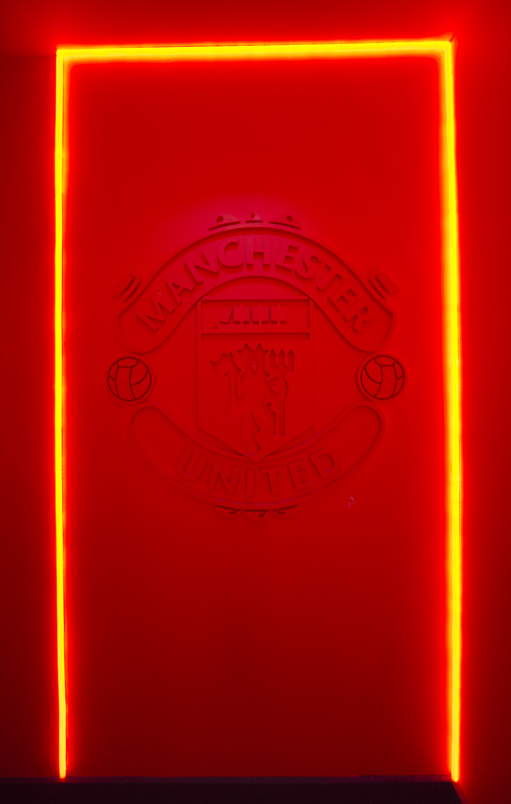 Manchester United